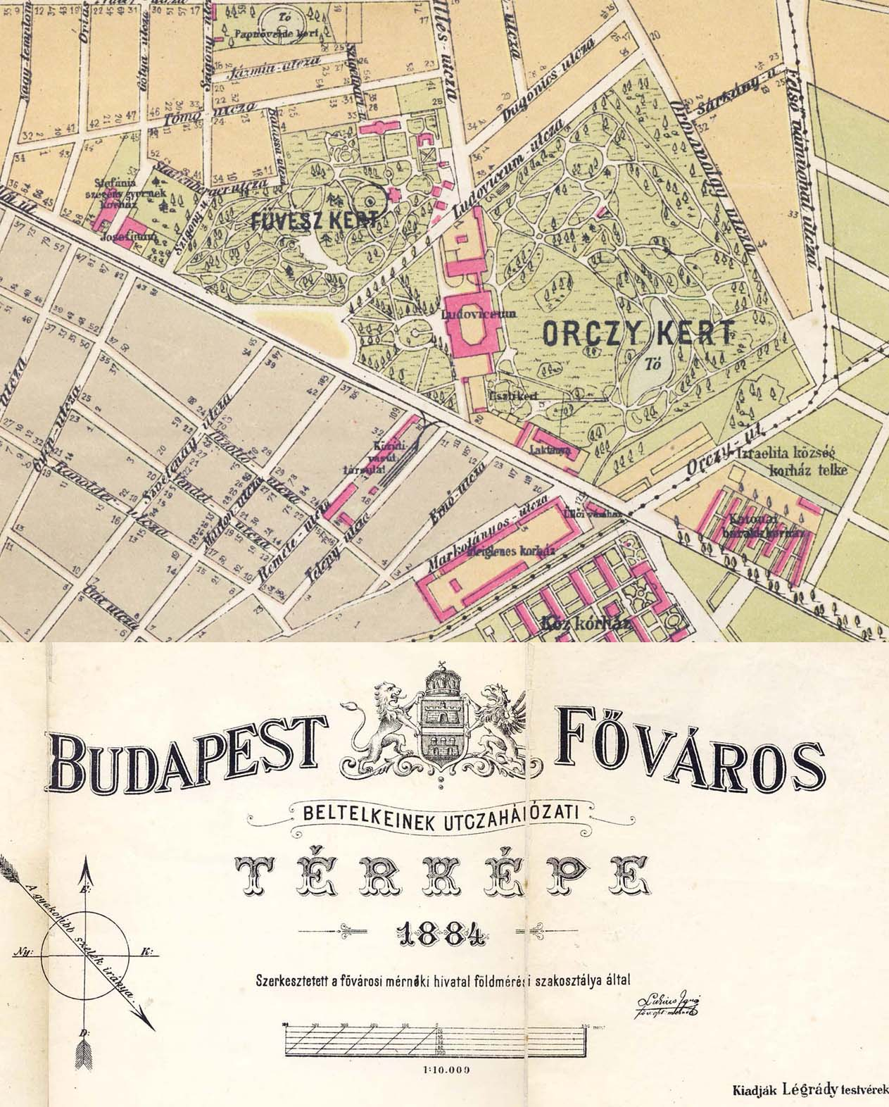 Map of Royal Hungarian Ludovica Academy of Military and Füvészkert (Botanical Garden), Budapest.